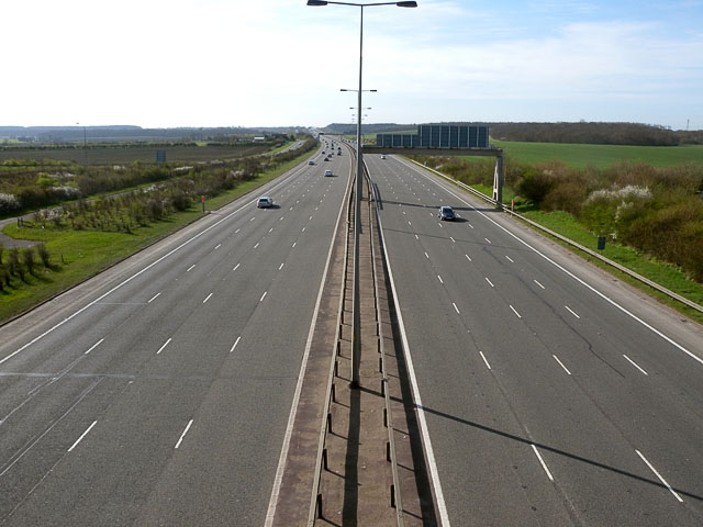 A1 (M) looking South A relatively quiet A1(M)looking south towards Stangate Hill.